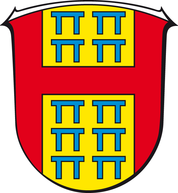 Coat of Arms of Hünstetten